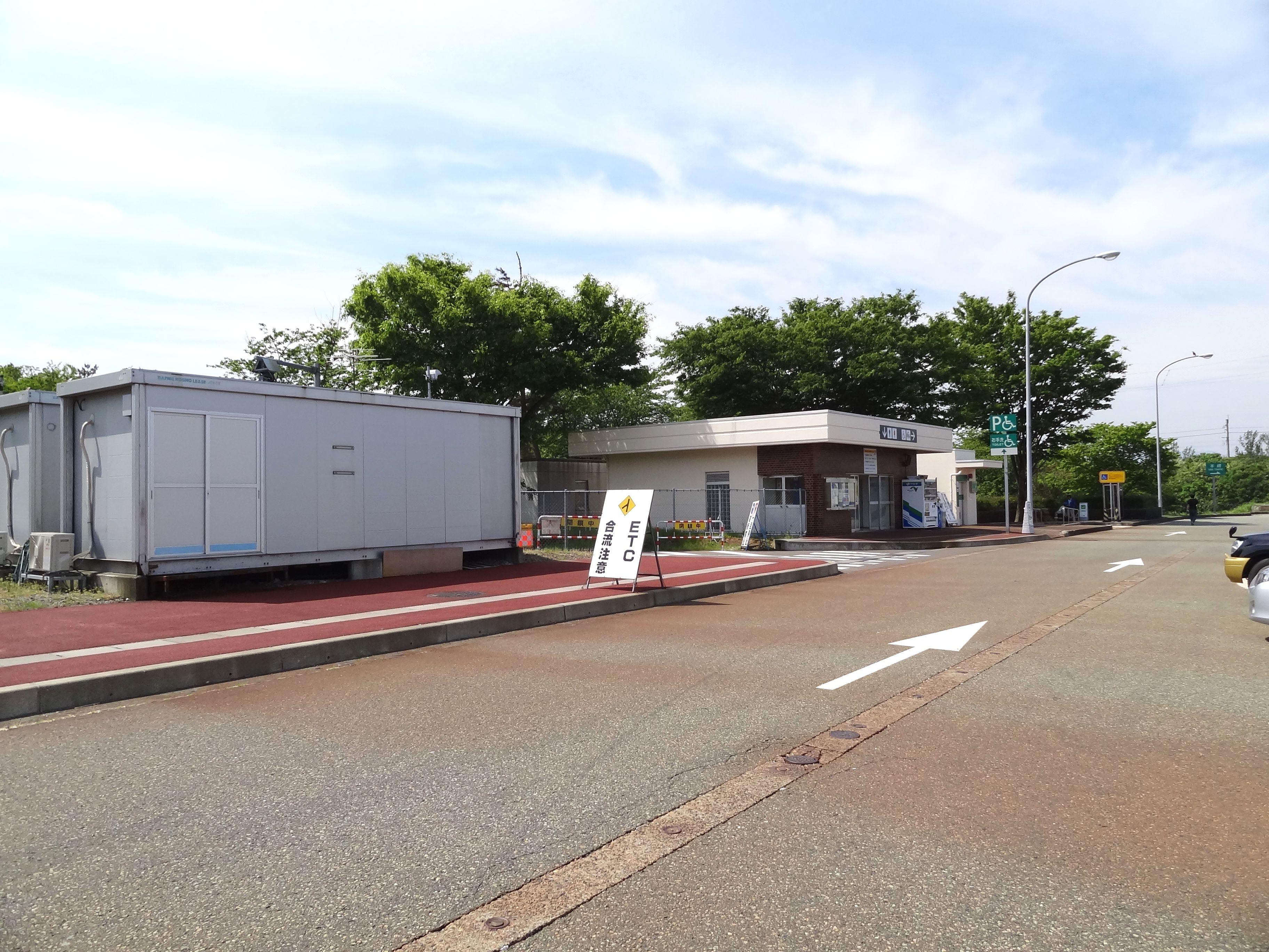 Ogata Parking Area on the Hokuriku Expressway inbound line